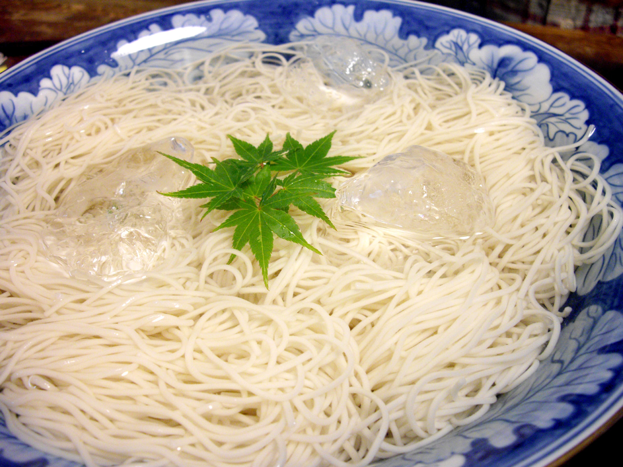 Vermicelli is a traditional type of pasta round in section similar to spaghetti